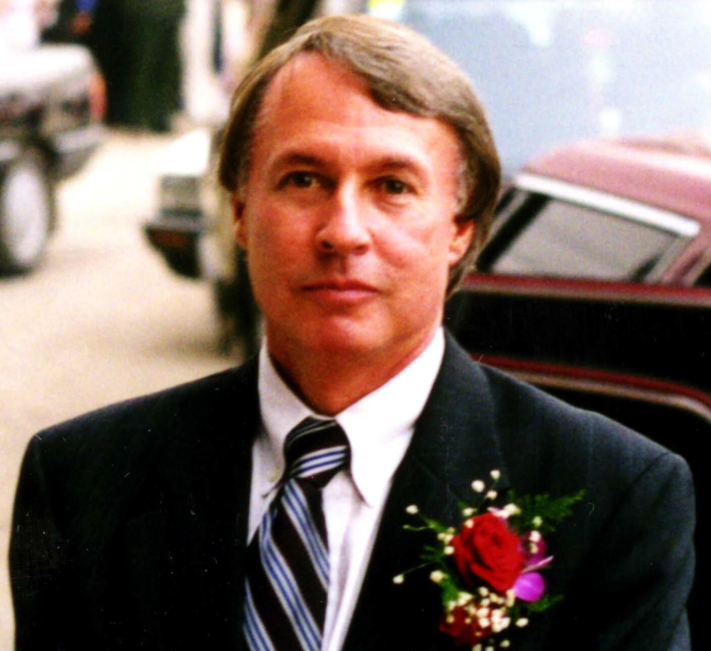 This is a picture of David Alexander taken by a friend of his around 1980 using Alexander's Canon camera.